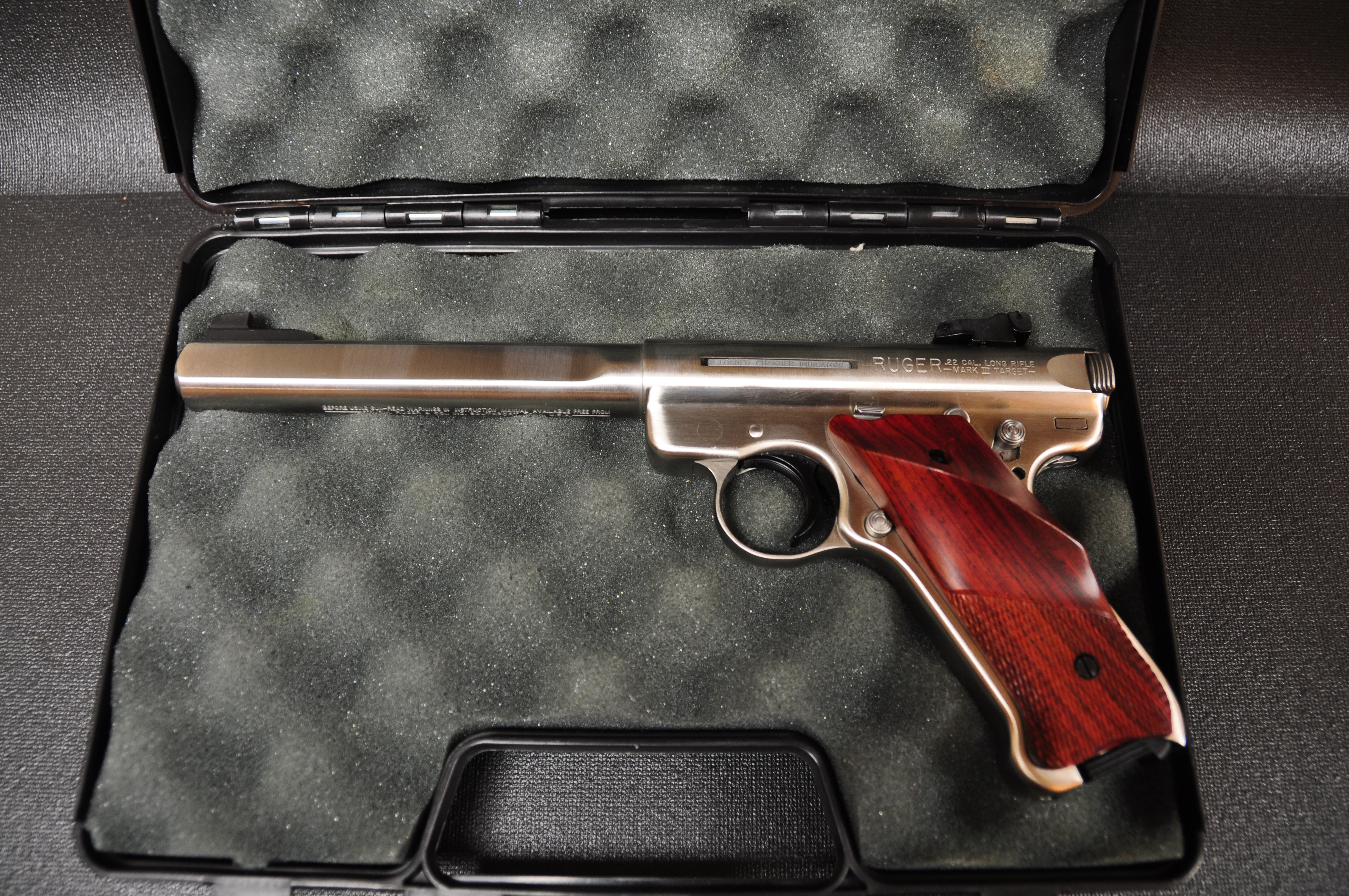 Ruger Mark III Competition